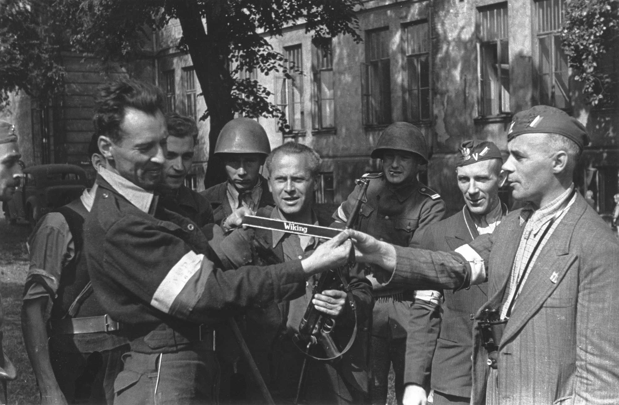 Warsaw Uprising: Capitan Cyprian Odorkiewicz "Krybar" comander of "Krybar" Regiment (on the right) during inspection of a captured German armored personnel carrier ("Szary Wilk") in Okólnik gardens. Wacław Jastrzębowski "Aspira" presents insignia of the 5th SS Panzergrenadier Division "Wiking". In the middle an insurgent with German MP40 submachine gun.